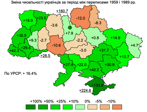 The change of the number of ukrainians between 1959 and 1989 censuses